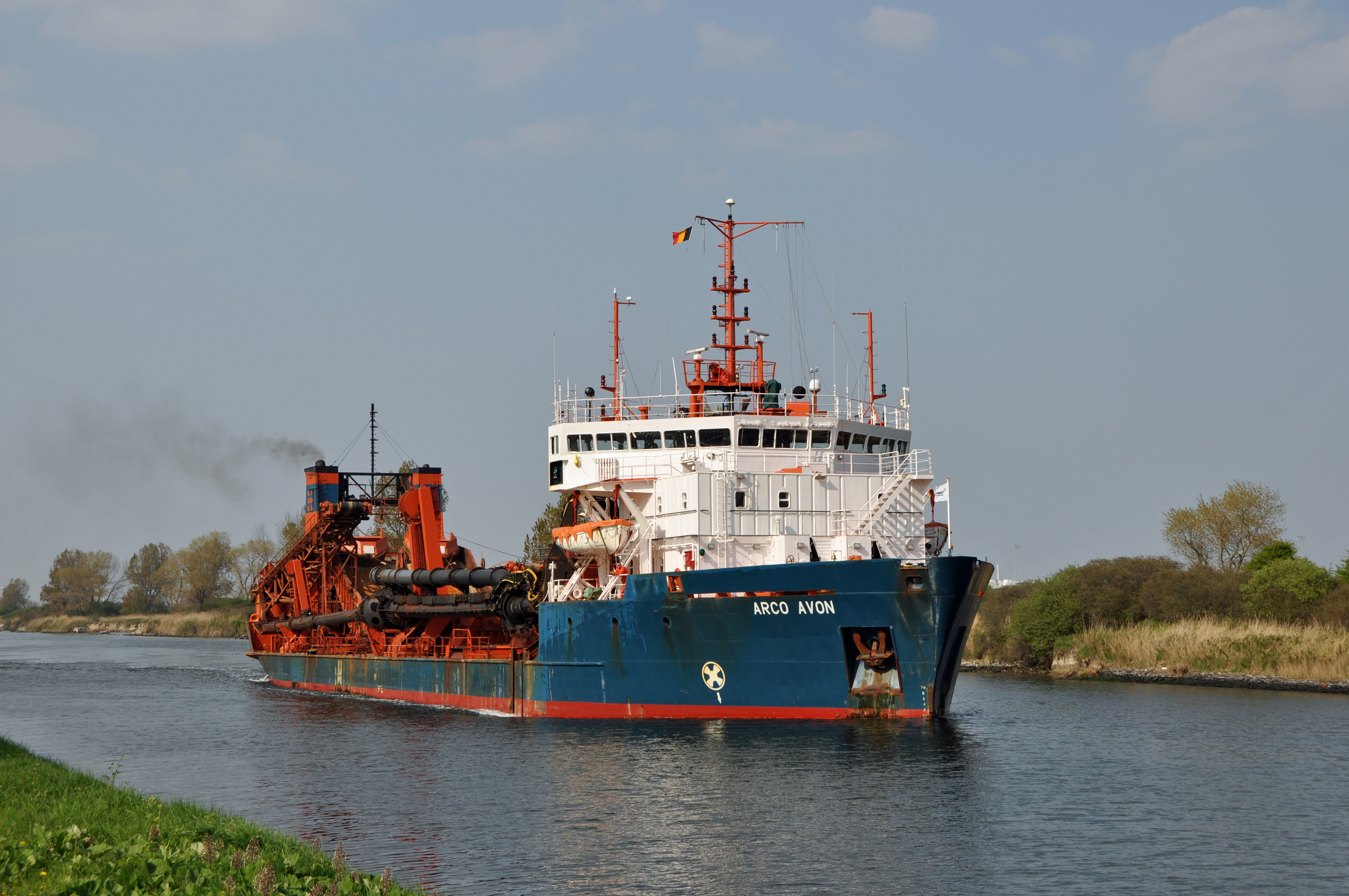 The British trailing suction hopper dredger Arco Avon (IMO 8508383) in the Boudewijn canal, heading from Zeebrugge to Bruges (Belgium)